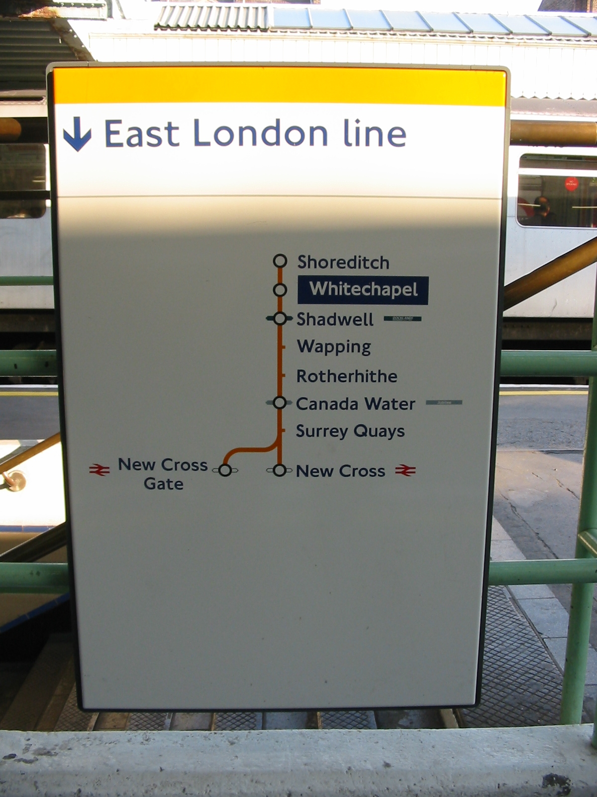 East London Line sign including Old Shoreditch Station (taken from District Line)